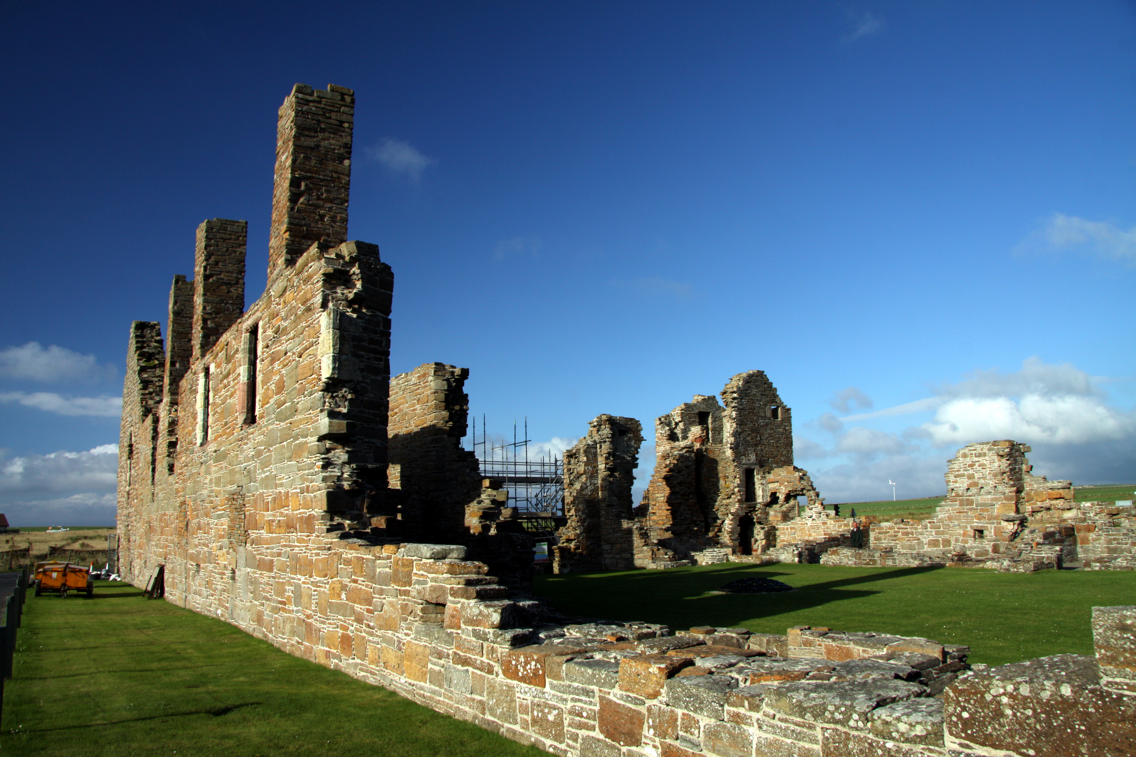 The Earl's Palace in Birsay, Orkney, Scotland, is a ruined 16th-century castle. It was built by Robert Stewart, 1st Earl of Orkney (1533–1593), illegitimate son of King James V and his mistress Euphemia Elphinstone. The palace is a category A listed building and a Scheduled Ancient Monument, and is in the care of Historic Scotland.